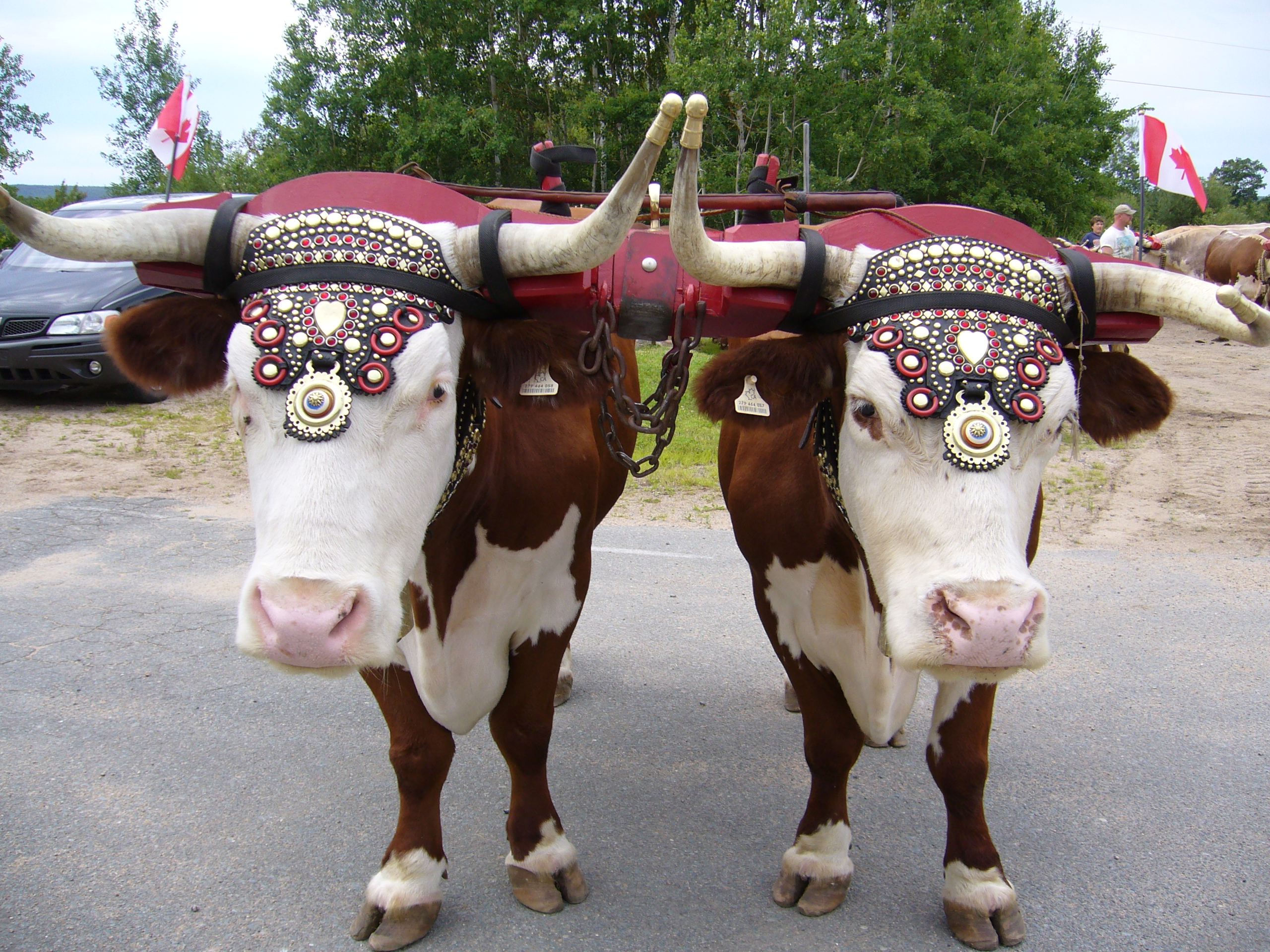 This team of Nova Scotian oxen are connected with the German head yoke.